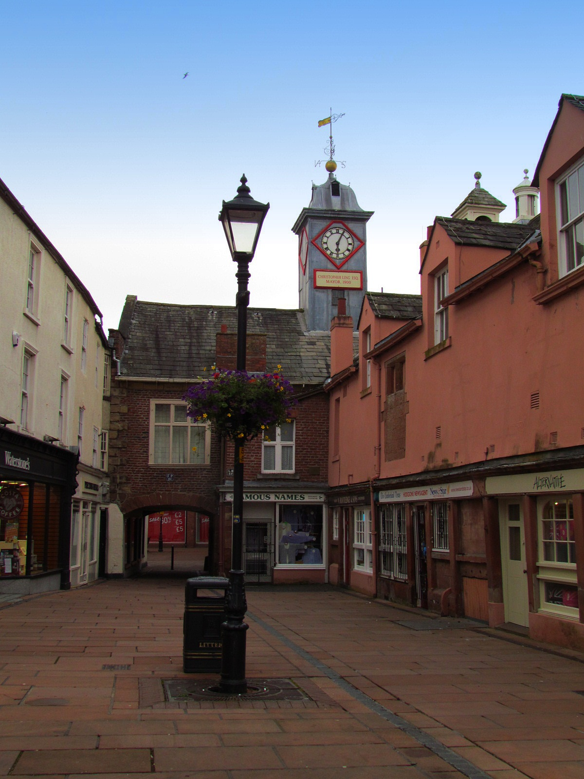 St Alban's Row in Carlisle, Cumbria, United Kingdom